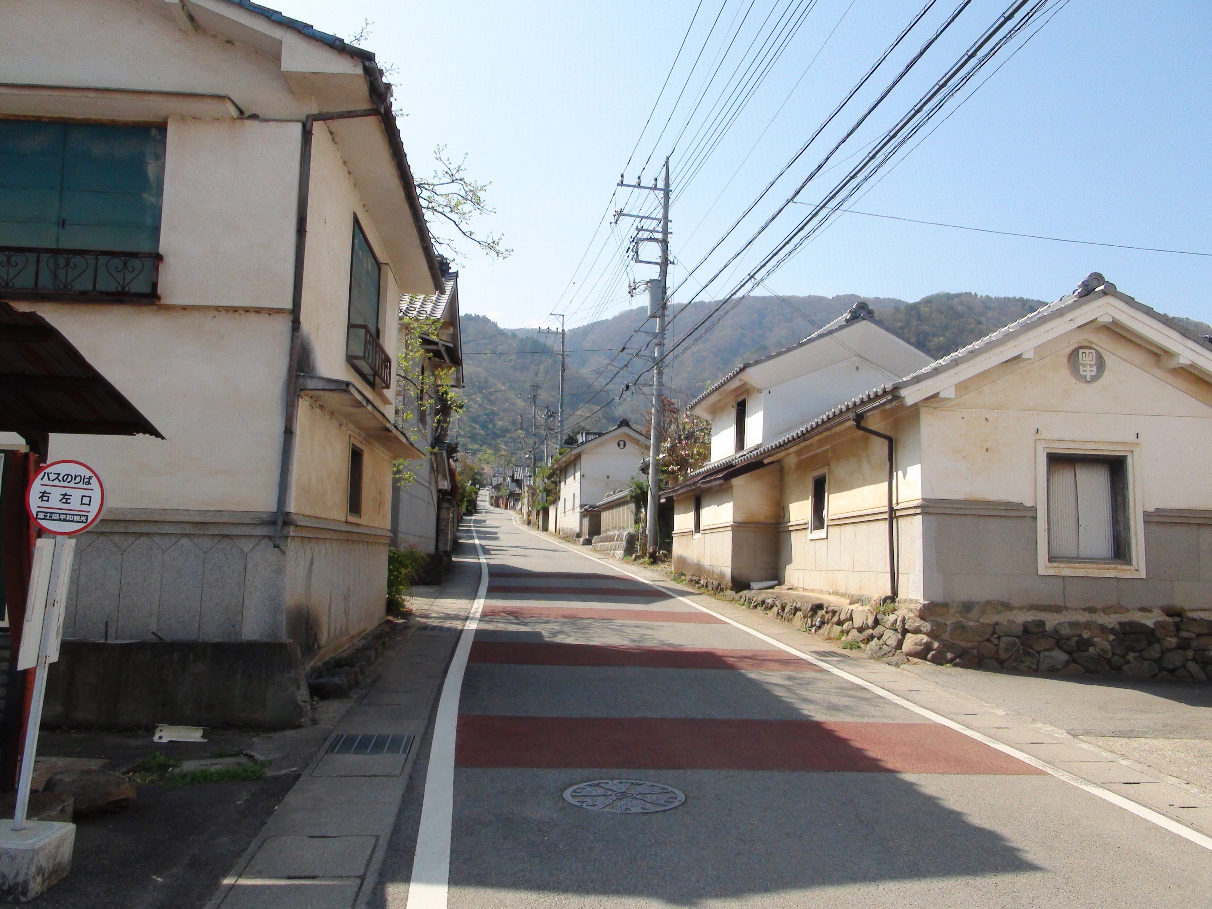 Nakamichi-okan Route Ubaguchi in Kofu, Yamanashi prefecture, Japan